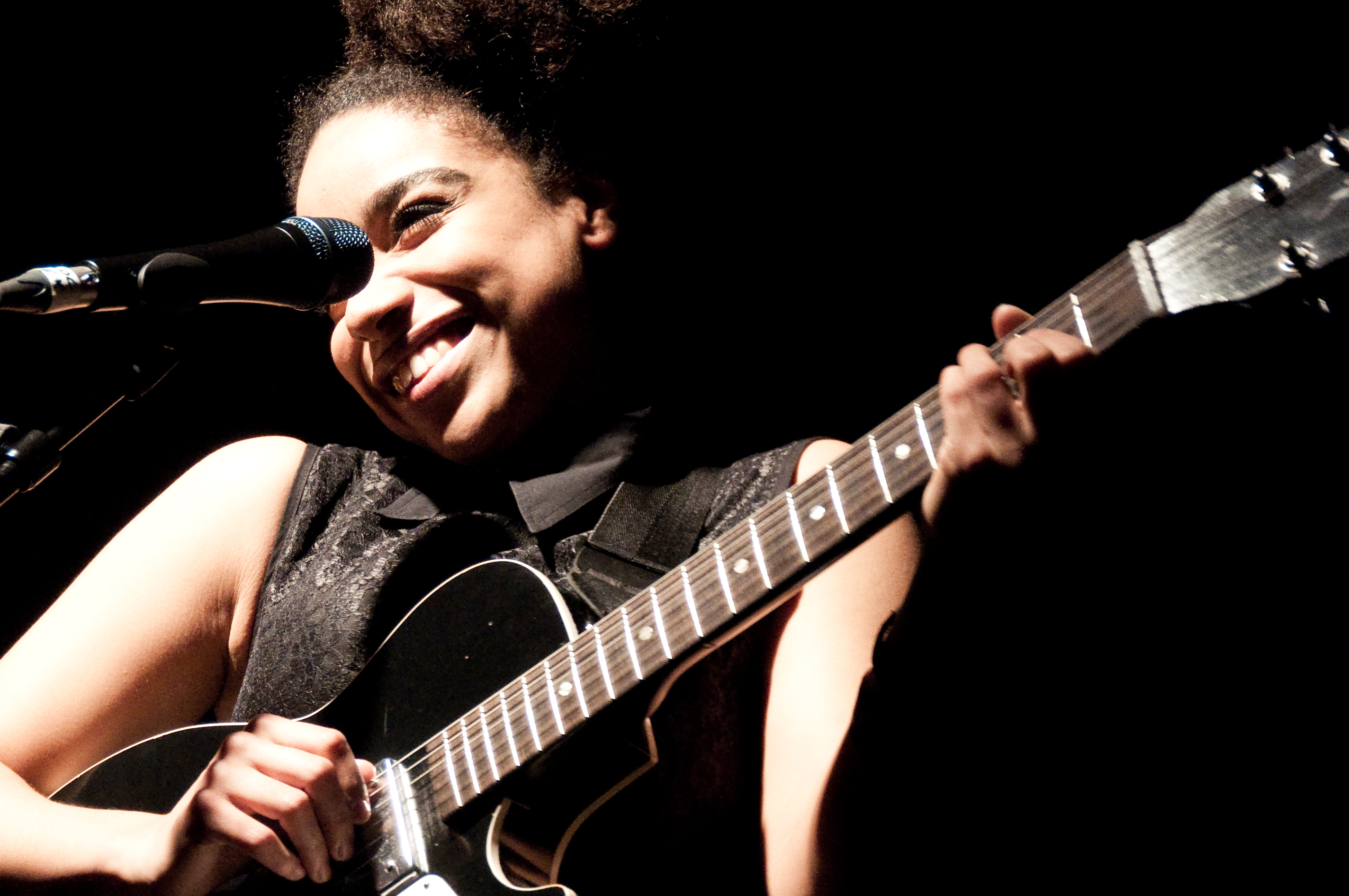 LIANNE LA HAVAS